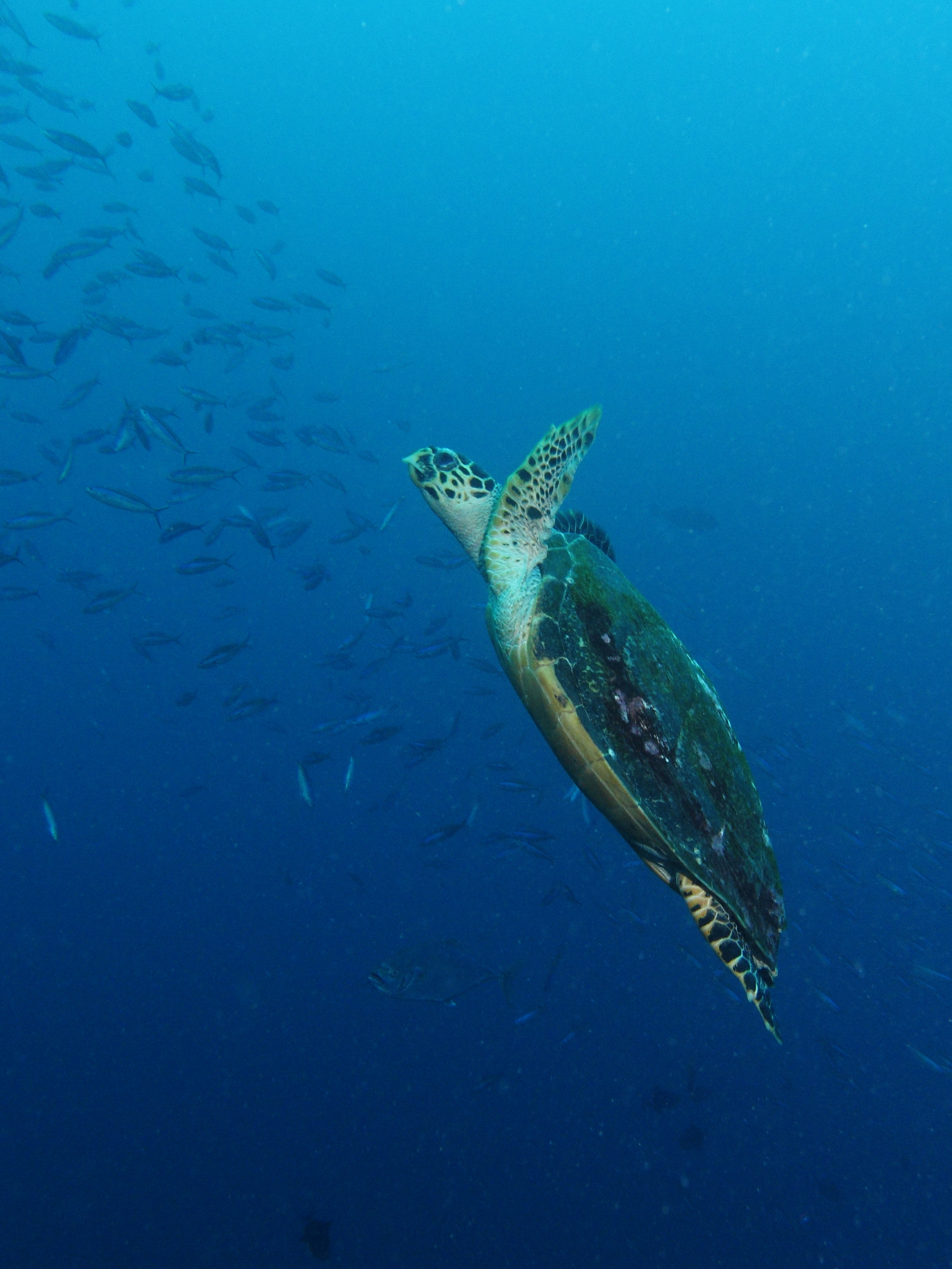 Green sea turtle (Chelonia mydas) at Batu Bolong (near Komodo, Indonesia)